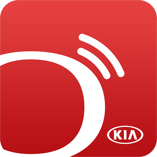 Launcher Icon for the UVO eServices App, Version 3.0.0 and later